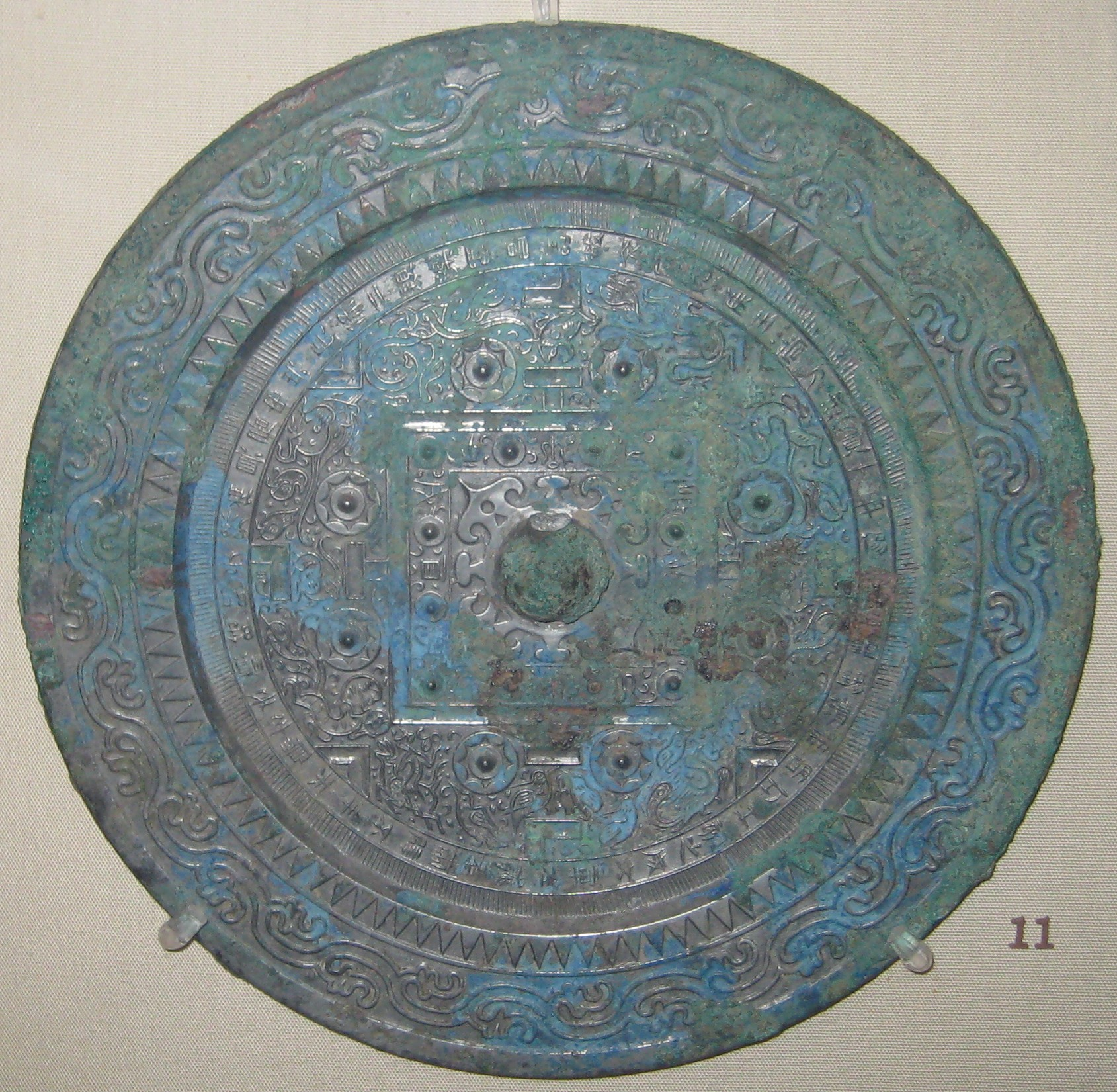 TLV mirror